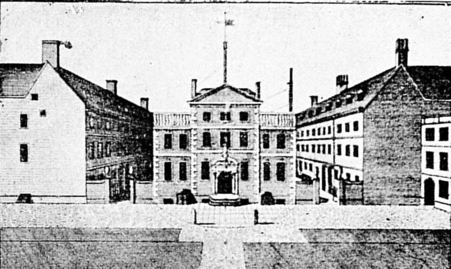 The Navy Office at Crutched Friars in 1790.